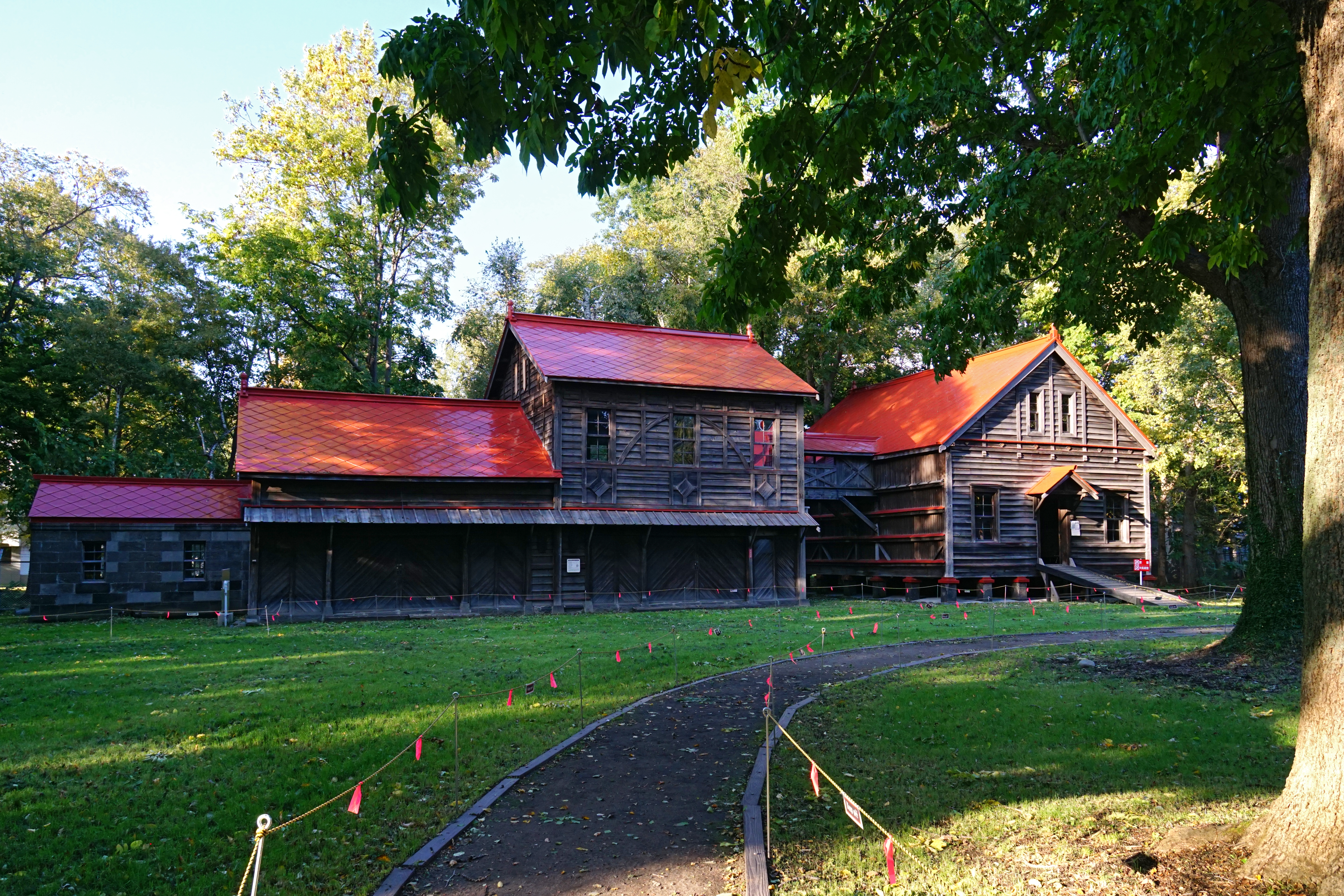 Sapporo Agricultural College 2nd farm at Hokkaido University in Sapporo Hokkaido prefecture, Japan.